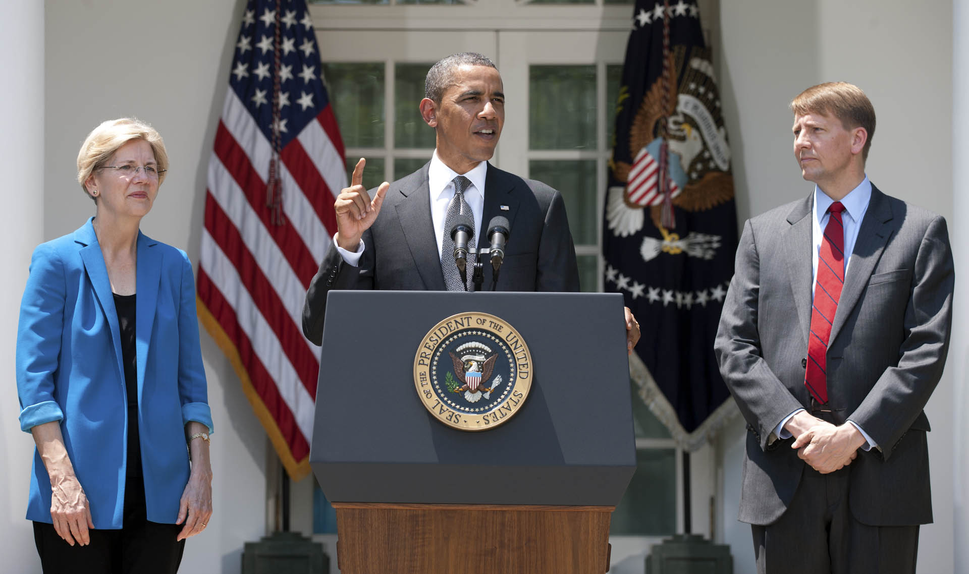 President Barack Obama announces the nomination of former Ohio Attorney General Richard Cordray, right, as the first director of the Consumer Financial Protection Bureau (CFPB) during a statement in the Rose Garden of the White House, July 18, 2011. At left is Elizabeth Warren, interim director of the CFPB. (Official White House Photo by Lawrence Jackson)